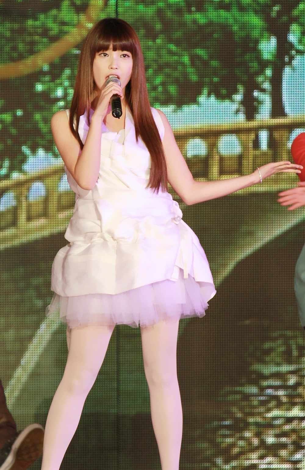 Korean singer IU performing "Good Day" at SBS Gayo Daejun on December 29, 2010